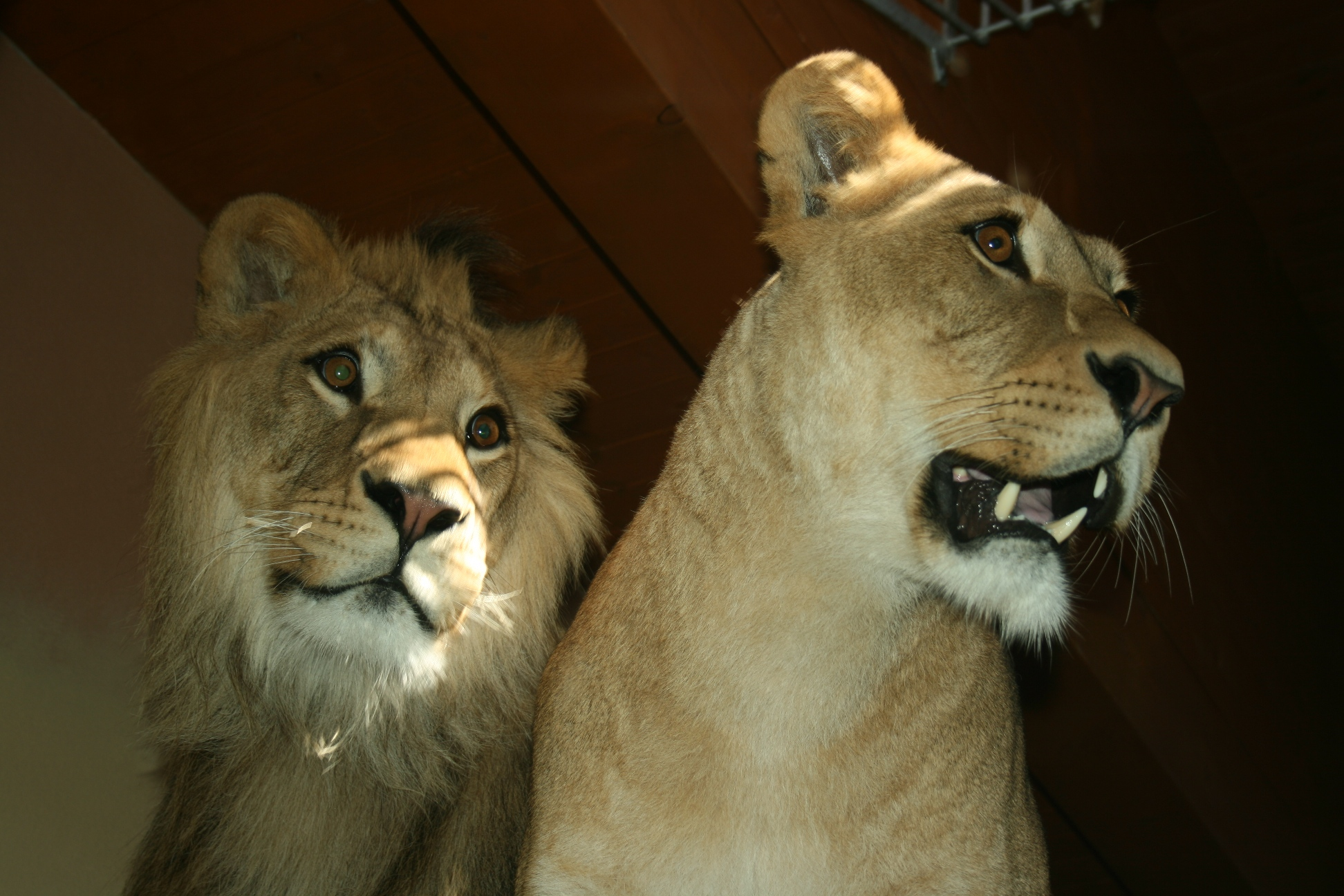 Barbary Lions in the zoo in Hodonín, Czech Republic.